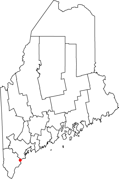 Map of the state of Maine with County Outlines, highlighting the city of Old Orchard Beach.